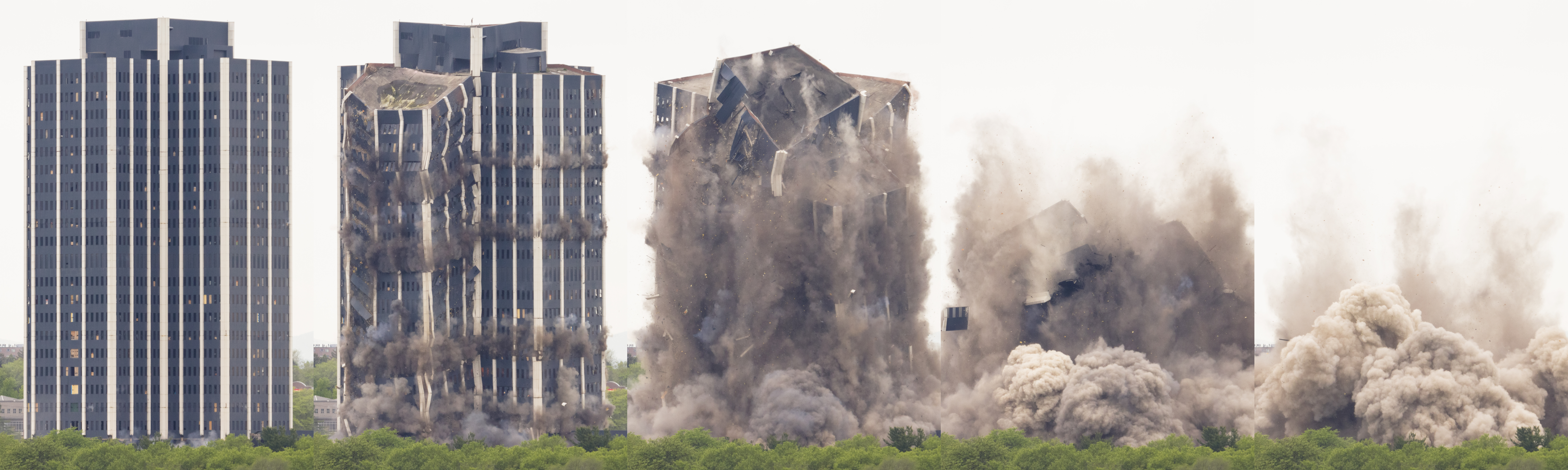 Demolition of Martin Tower, former headquarters of Bethlehem Steel, on May 19, 2019.